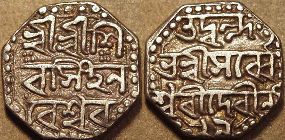 Silver half rupee of the Ahom king Rudra Simha naming his queen Sarvveshwari